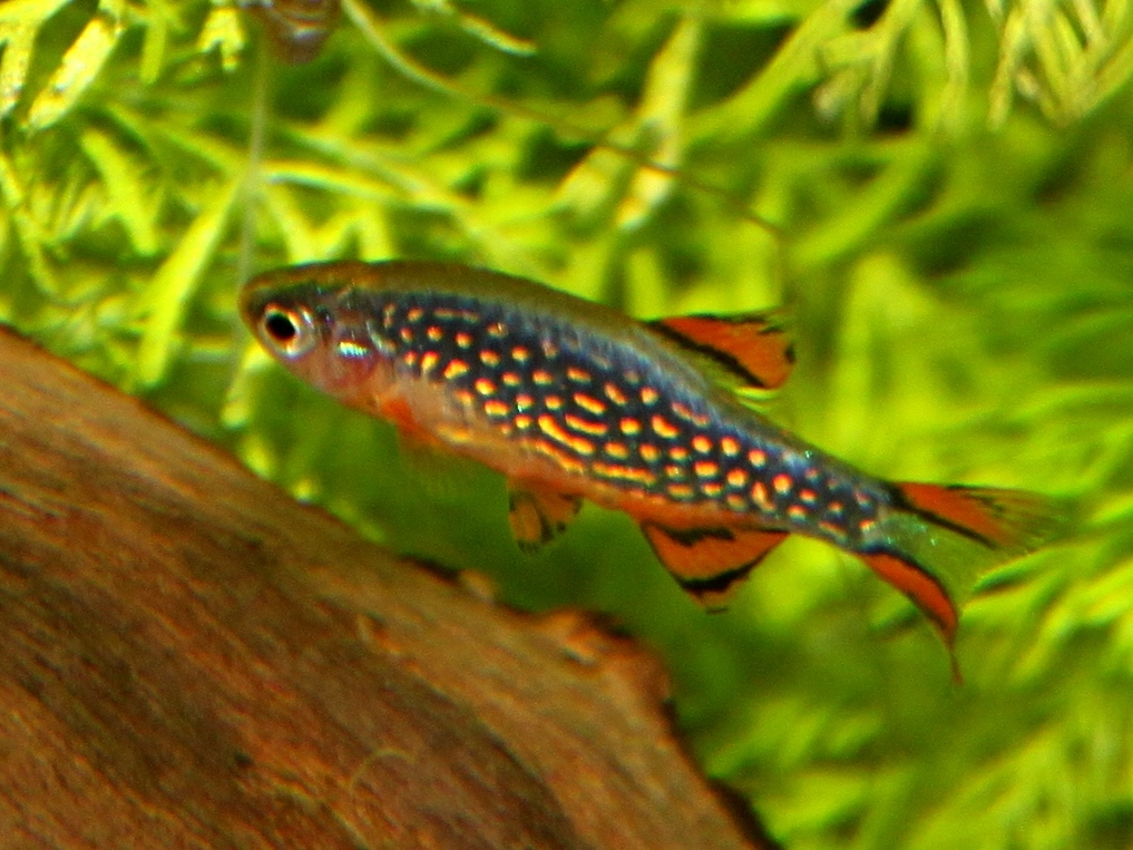 Danio margaritatus male